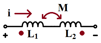 Two inductors in Series mutually opposing